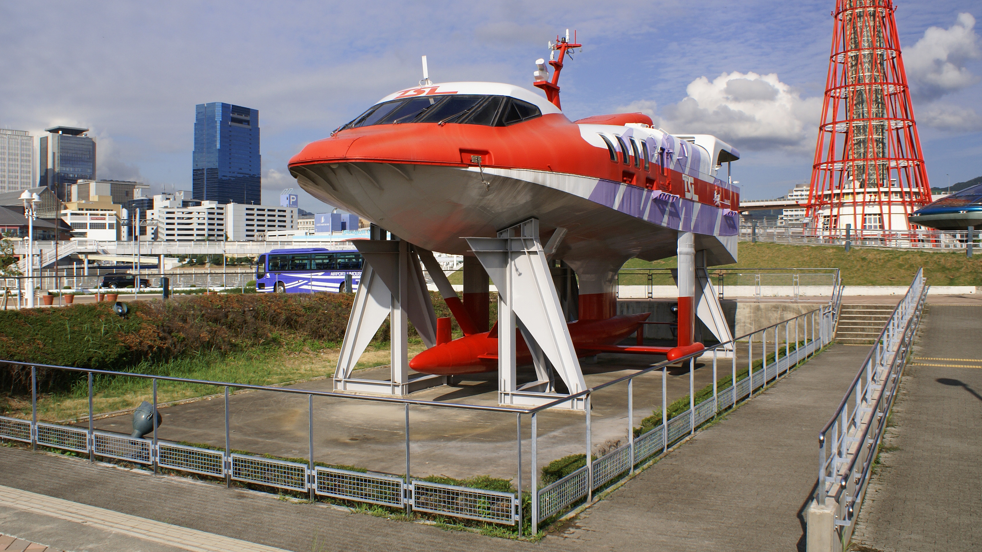 "HAYATE" of Kobe Maritime Museum in Kobe, Hyogo, Japan